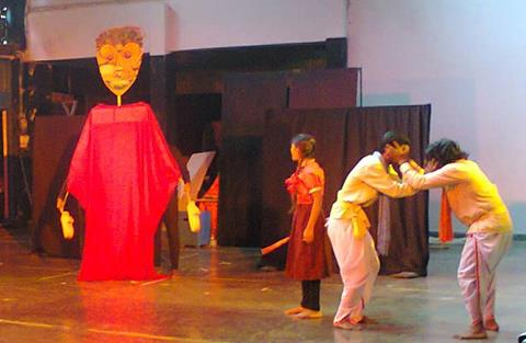 అడ్వెంచర్స్ ఆఫ్ చిన్నారి